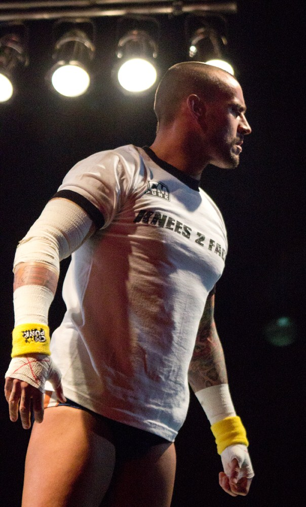 CM Punk during a WWE house show on February 2, 2013 in Montgomery, Alabama.